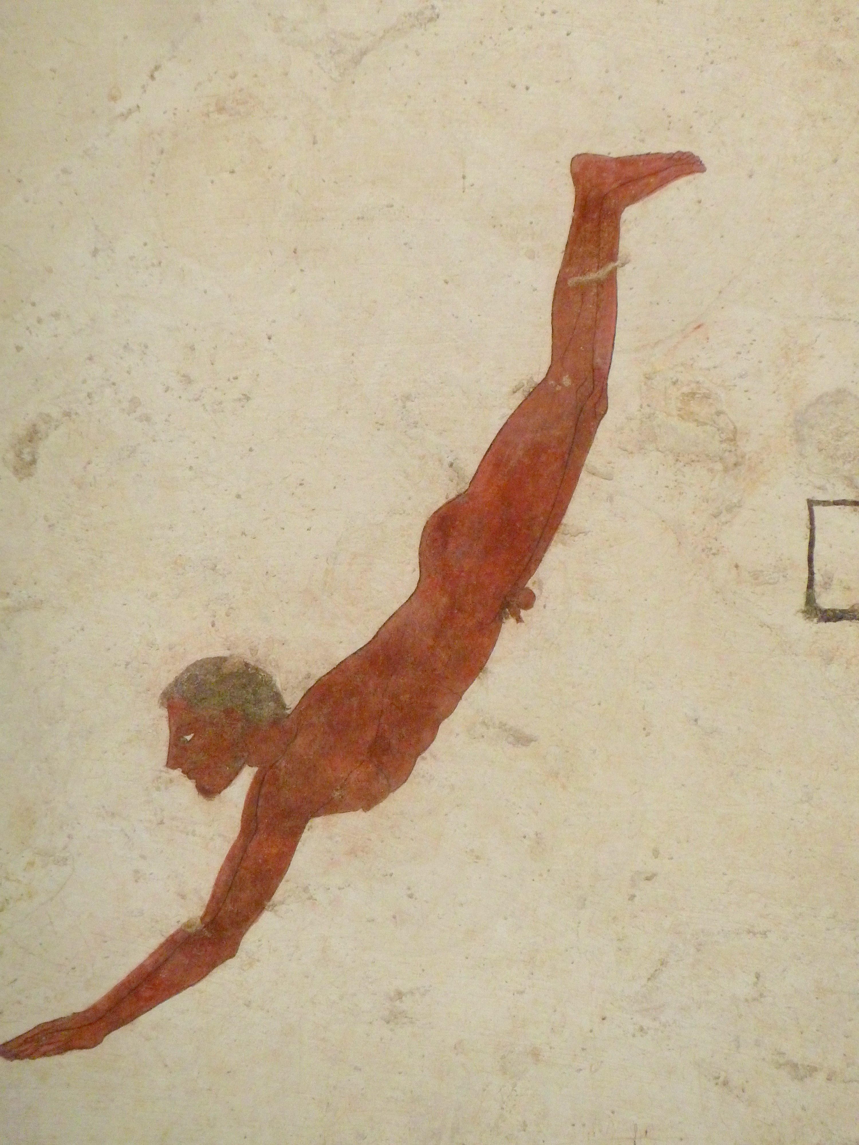 Tempa del Prete. Tomb of the Diver (470 BC). Paestum.